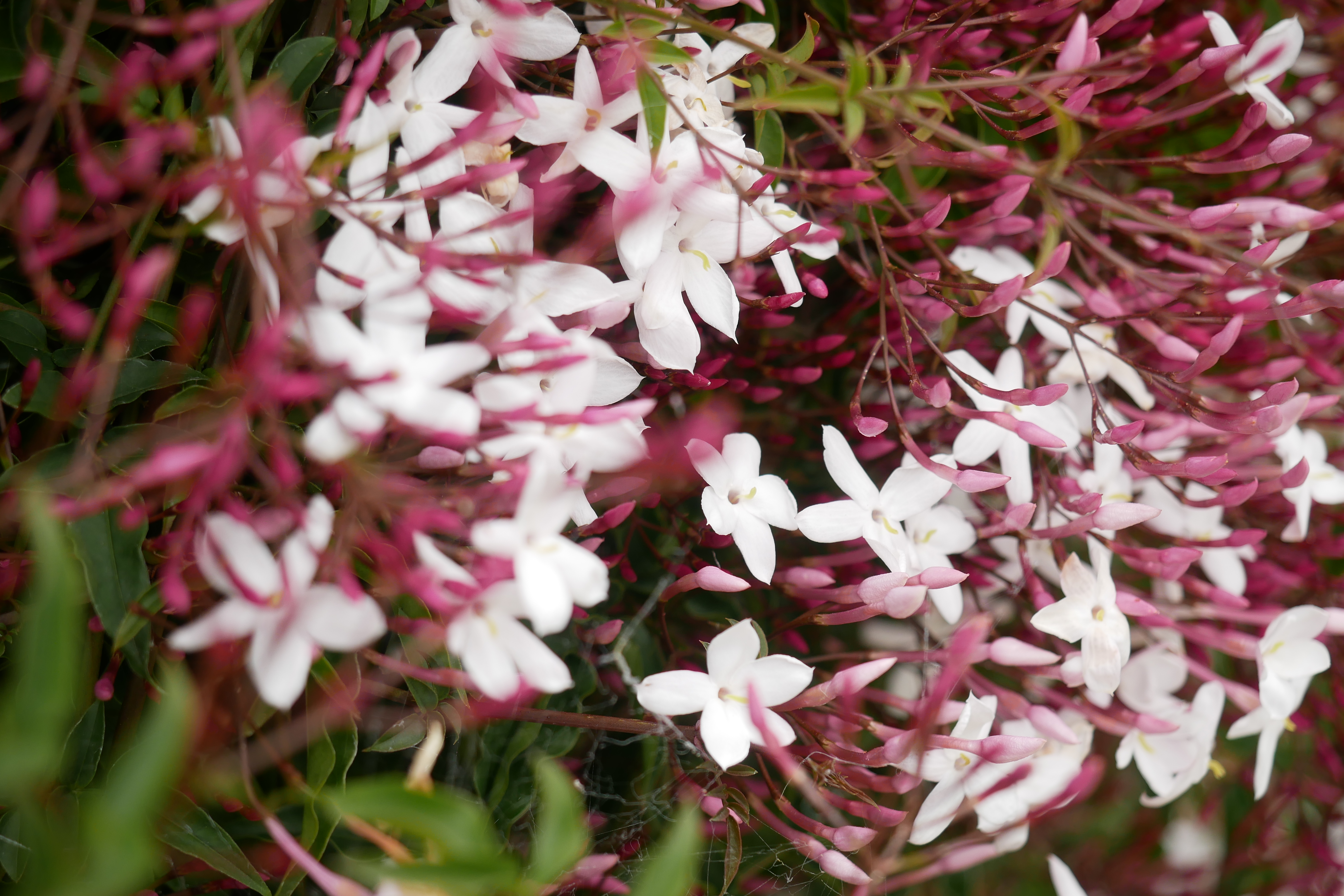 Pink jasmine bush